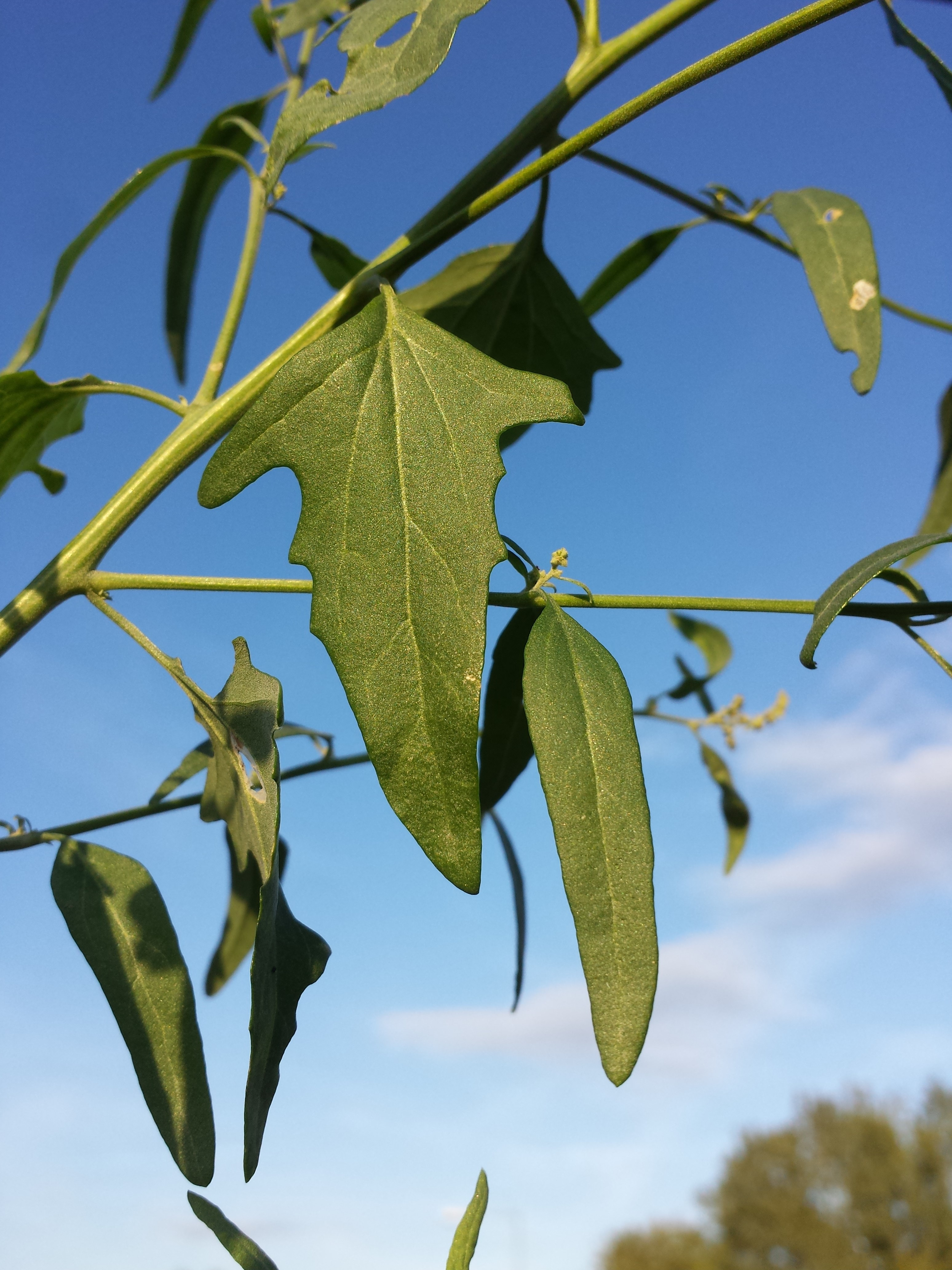 Stem with middle leaves Taxonym: Atriplex oblongifolia ss Fischer et al. EfÖLS 2008 ISBN 978-3-85474-187-9 Location: Schwarzlackenau, Vienna-Floridsdorf - ca. 160 m a.s.l. Habitat: ruderal, dry meadows